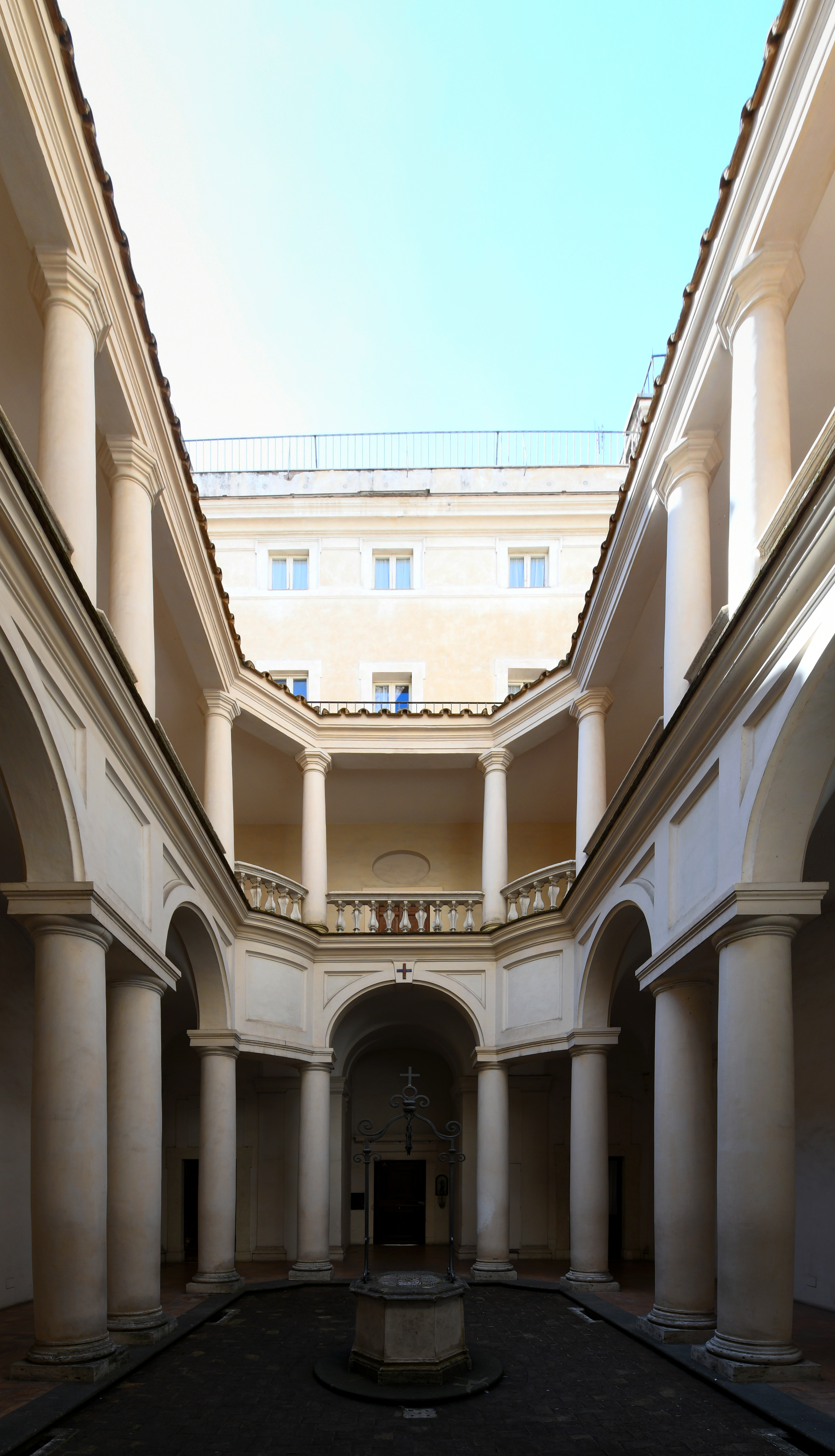 San Carlo alle Quattro Fontane (Rome) - Cloister